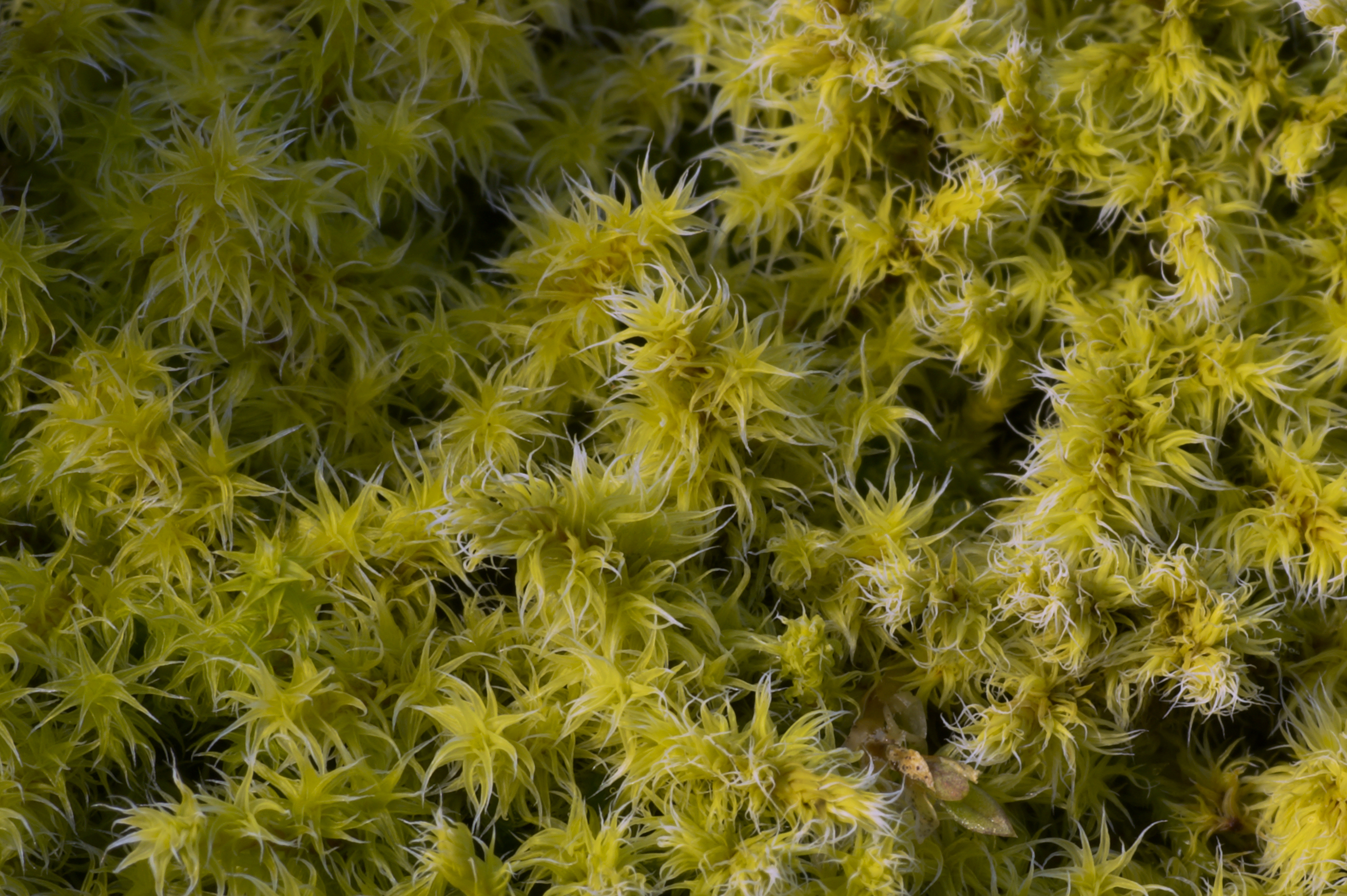 A closeup shot of moss on a rock in Beacon Hill Park, Victoria, Canada. Sony Alpha A100